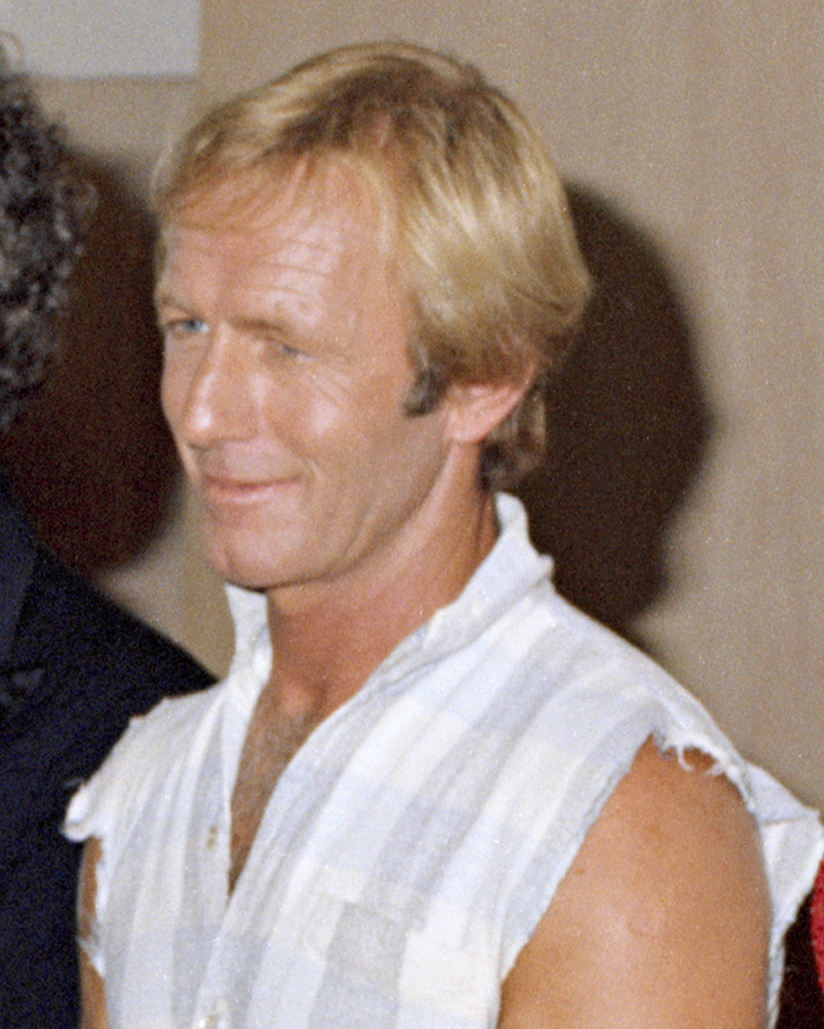 Queen Elizabeth II and the Duke of Edinburgh meet Australian entertainers who performed in a Royal Charity Concert at the Sydney Opera House [in 1980]. Performers include (from left): pianist Roger Woodward, comedian Paul Hogan and singer Olivia Newton-John.